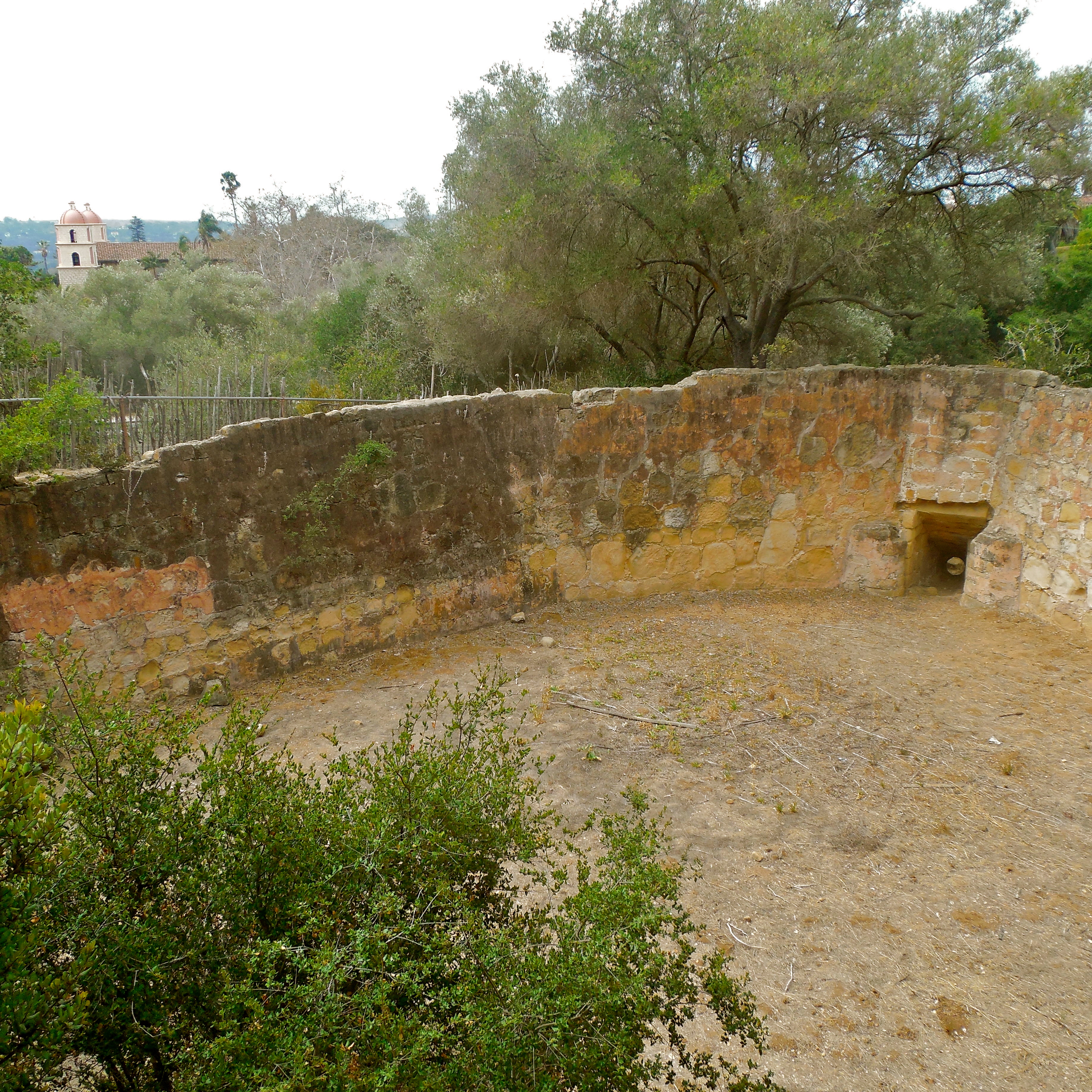 Upper reservoir of the Santa Barbara Mission, Mission Historical Park in Santa Barbara, California. The penstock and the connected clay culvert (shown) allowed water to flow downward at a 35 degree angle toward the water wheel, causing it to rotate and generate power for the millstones to grind grain.